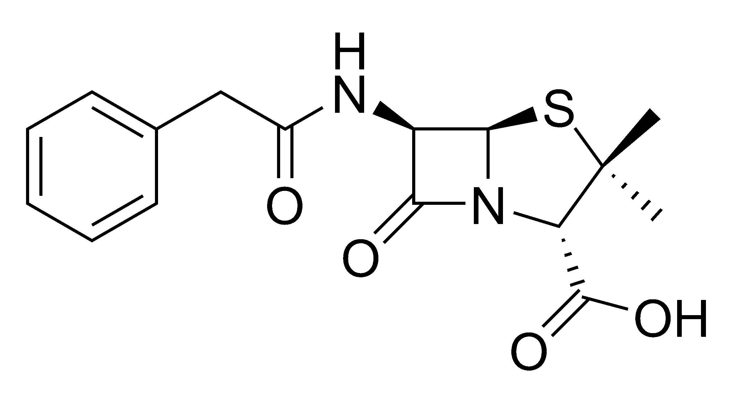 Chemical structure of Penicillin-G